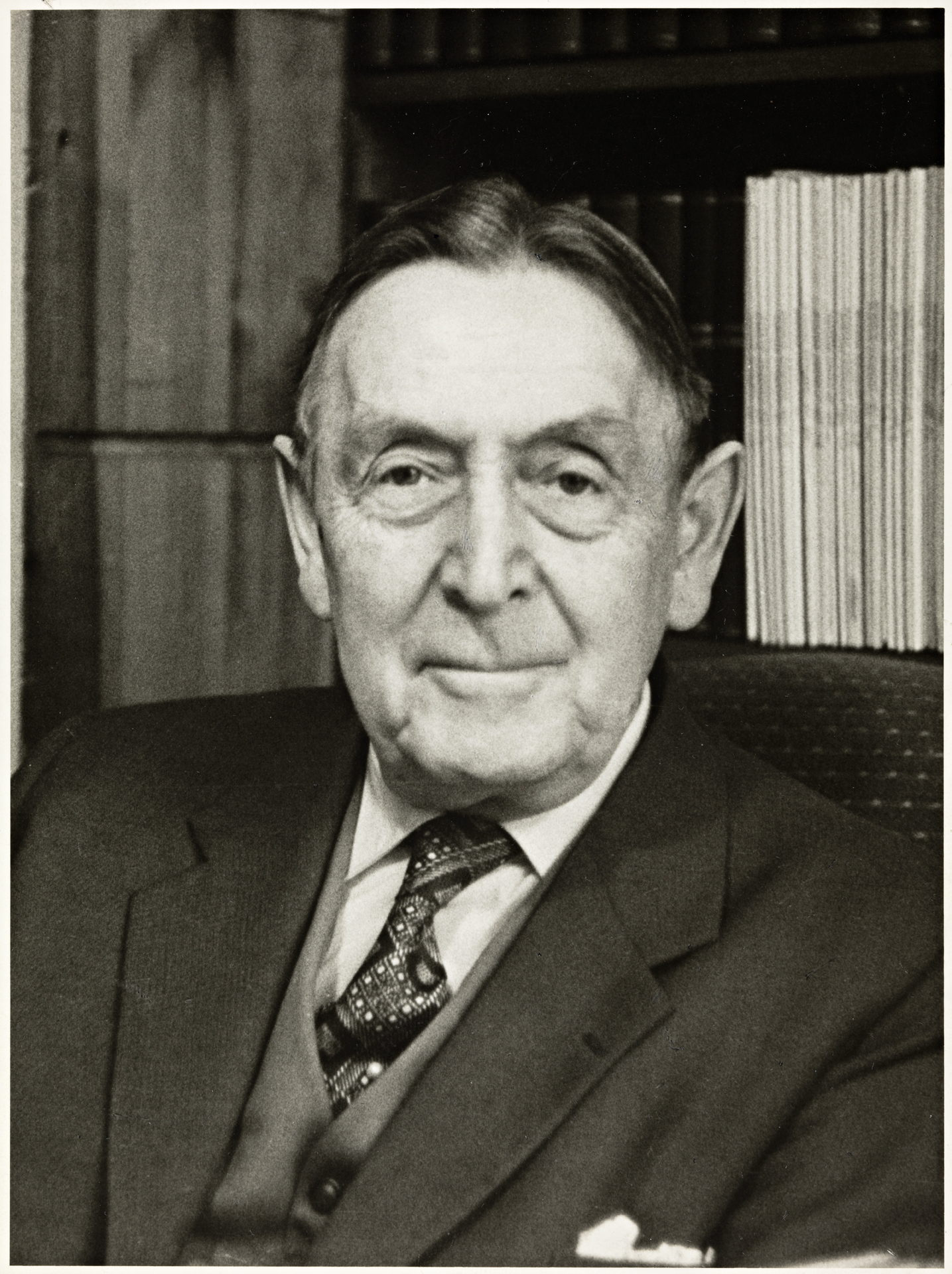 Tittel / Title: Portrett av Francis Bull (1887-1974) Motiv / Motif: Litteraturhistoriker og forfatter. Dato / Date: 1961 Fotograf / Photographer: Odd Borgersen Eier / Owner Institution: Nasjonalbiblioteket / National Library of Norway Lenke / Link: Bildesignatur / Image Number: blds_04865